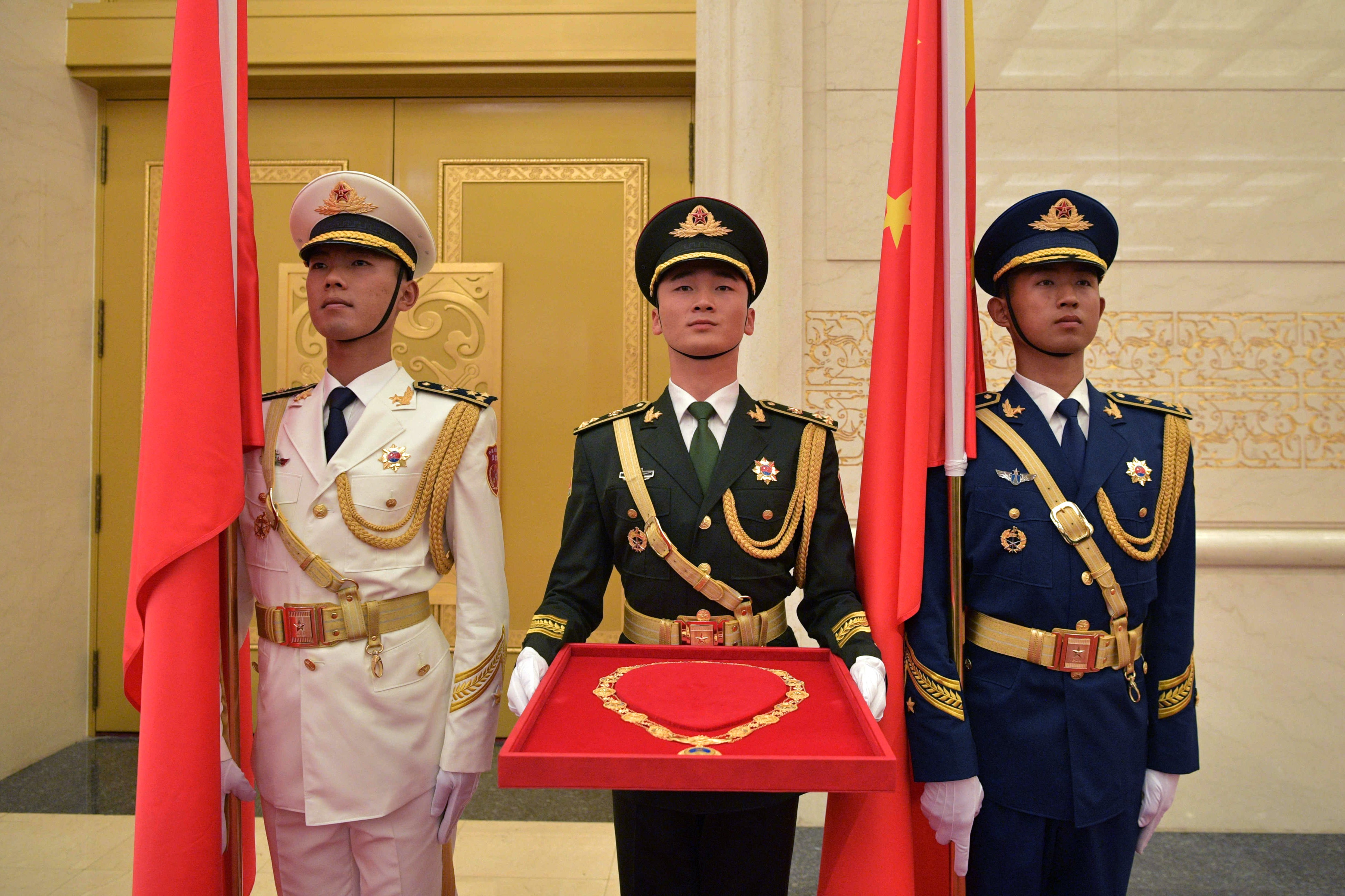 President of China Xi Jinping awarded the Order of Friendship of the People’s Republic of China to Vladimir Putin. The President of Russia is the first foreign leader to be awarded this high national order of China.